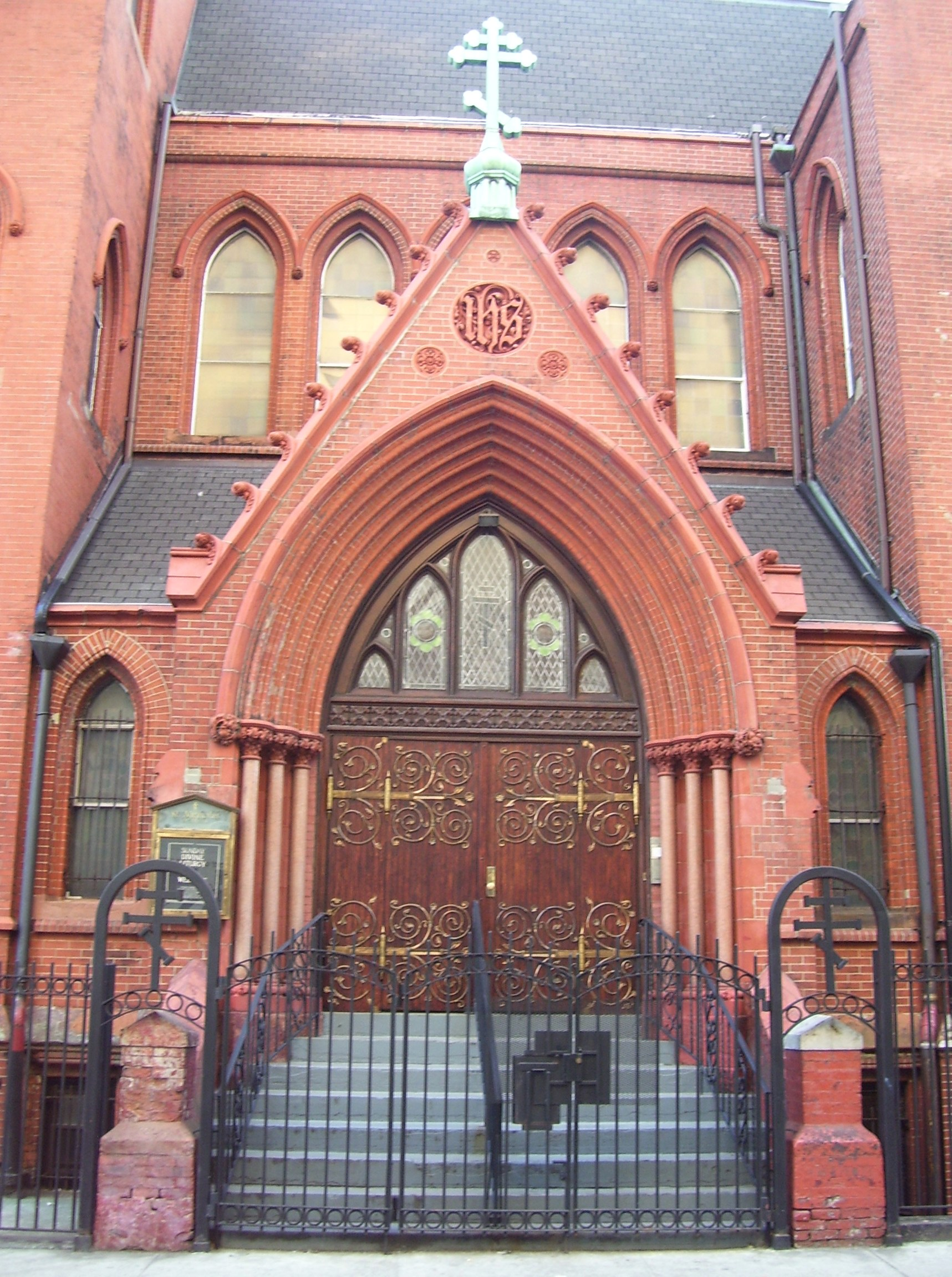 St. Nicholas of Myra Church, at 288 East 10th Street, on the corner of Avenue A in the East Village neighborhood of Manhattan, New York City, was built in 1883 as a chapel of St. Mark's Church-in-the-Bowery, designed in Gothic Revival style by James Renwick, Jr. and W.H. Russell. It later became the Holy Trinity Slovak Lutheran Church, and then, in 1925, the American Carpatho-Russian Orthodox Diocese rented it for use as the Church of St. Nicholas of Myra, and bought it outright in 1937. (Sources: Dunlap From Abyssinian to Zion (2010) and AIA Guide to NYC (4th ed.))